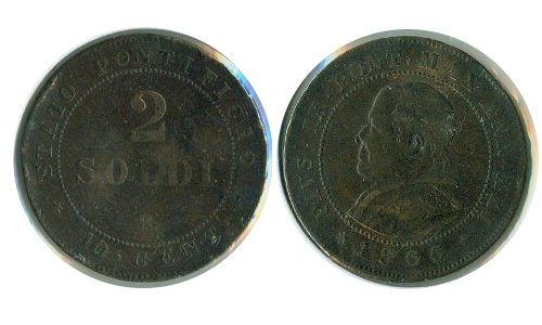 2 soldi (10 centesimi) Metal :Copper Ruler: Pius IX